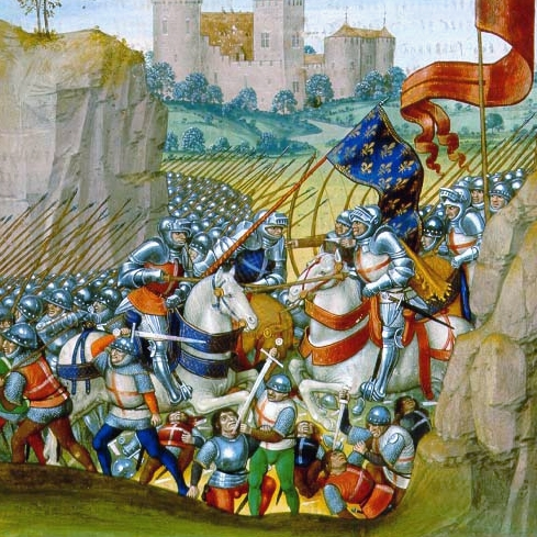 The Battle of Agincourt from Enguerrand de Monstrelet, Chronique de France. French. Manuscript op parchment, 266 ff., 405 x 300 mm. Brugge(?), c.1495